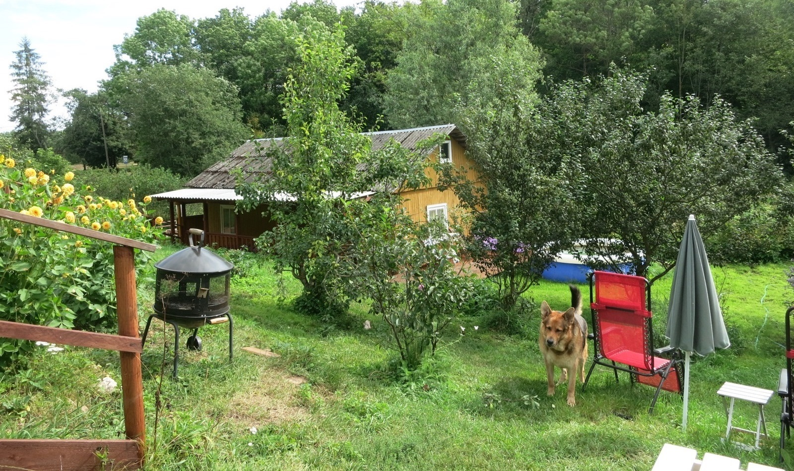 Nowadays yard and renovated old sauna (bathhouse) in Estonia